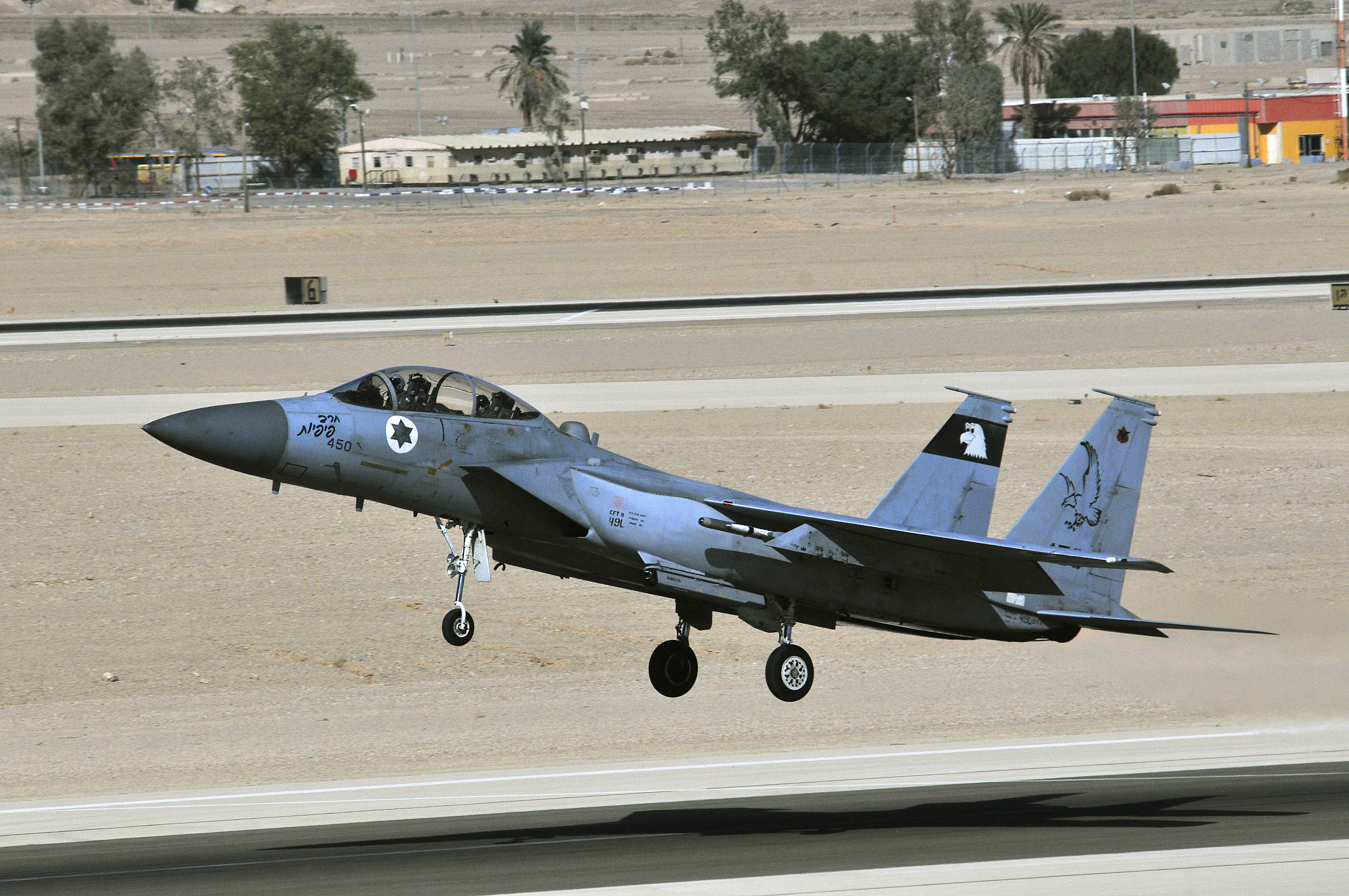 An Israeli Air Force F-15D takes off during the Blue Flag exercise on Uvda Air Force Base, Israel, Nov. 26, 2013. Blue Flag was a multinational aerial warfare exercise hosted by Israel, which promoted improved operational capability, combat effectiveness, understanding and cooperation between the U.S., Israel, Greece, and Italy. The exercise was conducted from Nov. 24-28 and further strengthened the long-lasting relationship between the partner nations, while ensuring regional peace and stability. Photo ID: 1062986 VIRIN: 131126-F-RP755-342